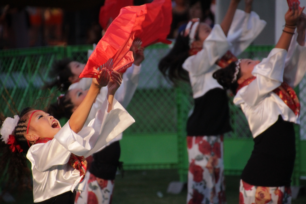 Photograph during 2014 Awa odori Festival in Takamatsu.